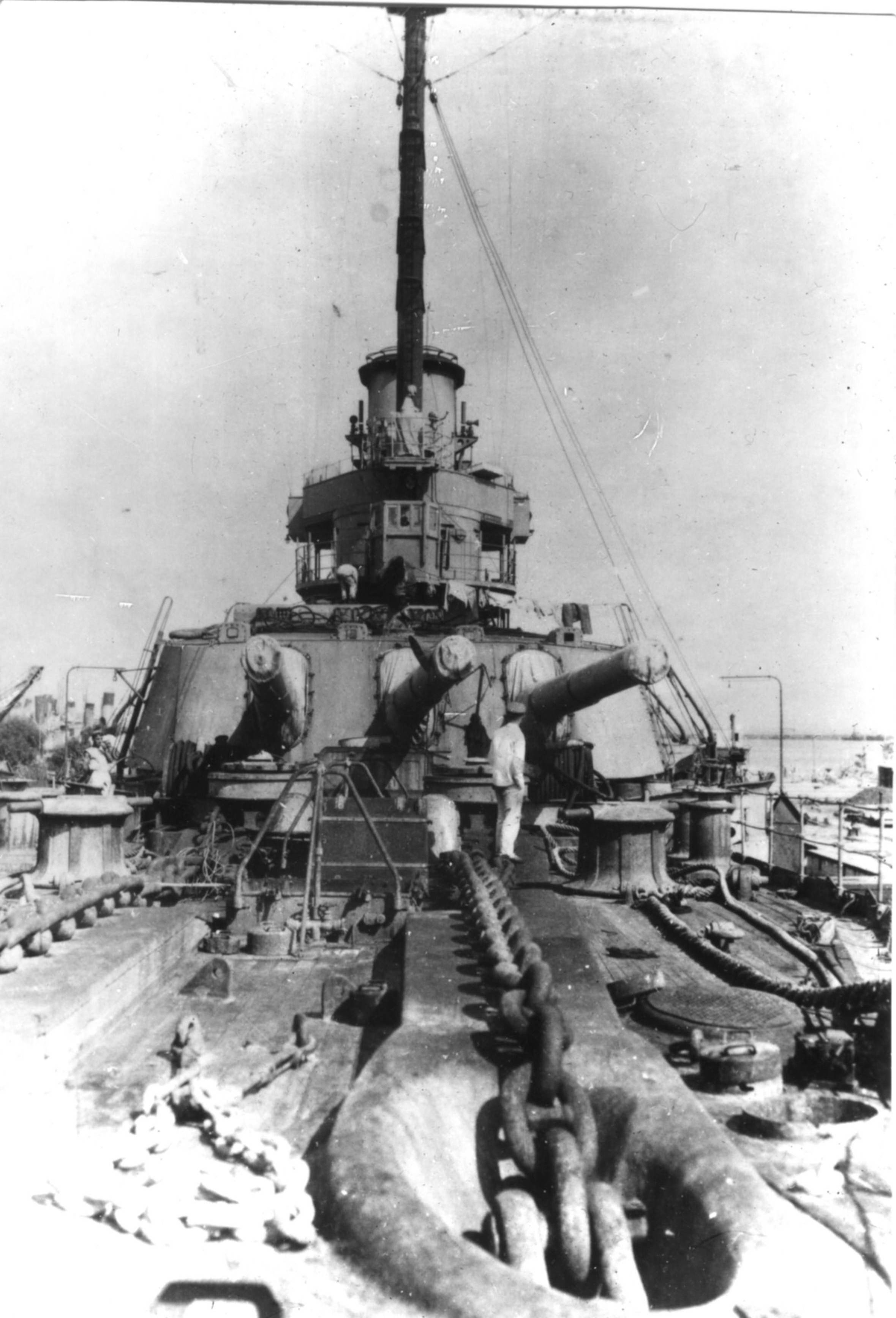 Battleship Volia (Imperator Aleksandr III, General Alekseev).